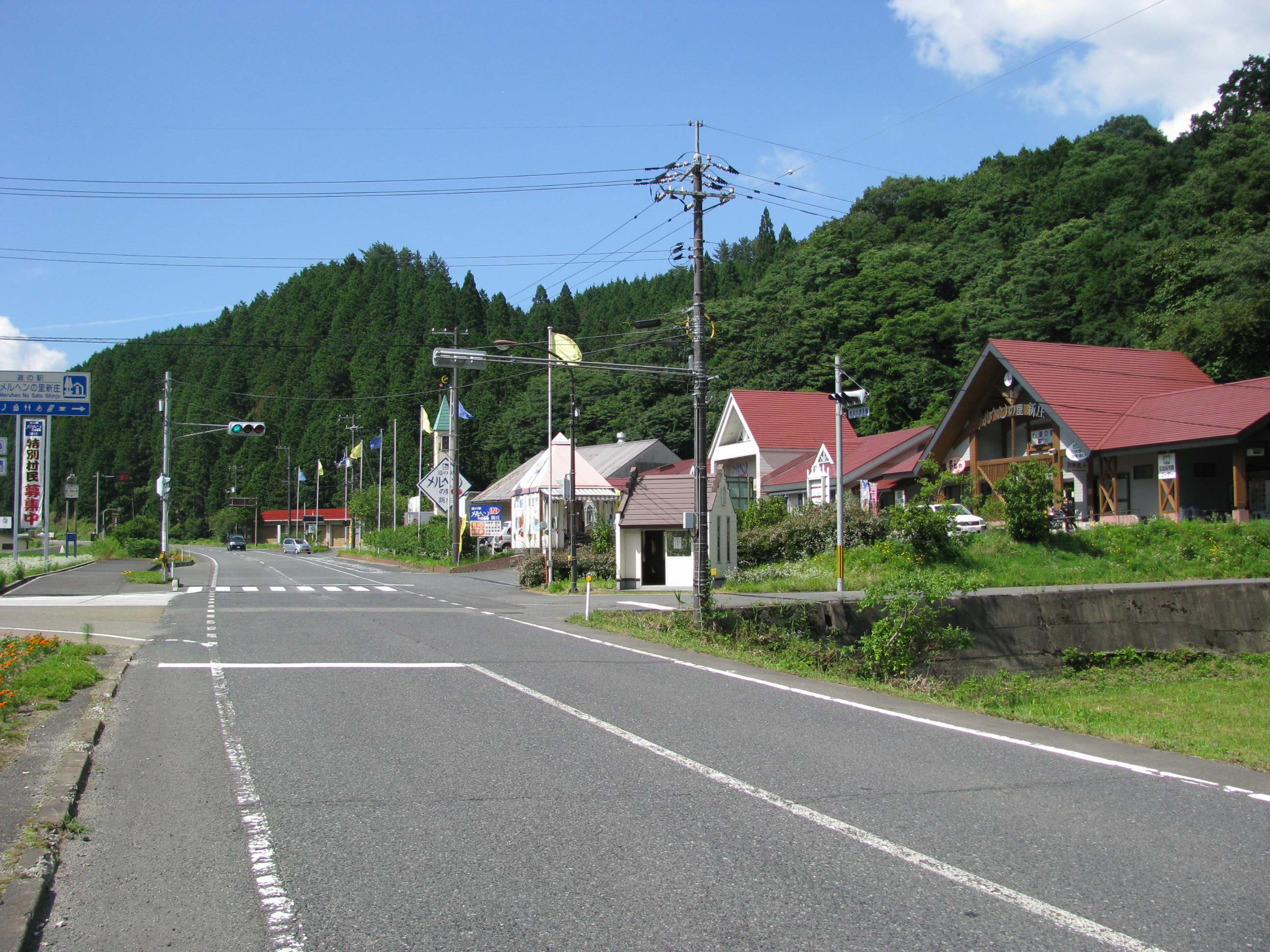 The Michi-no-eki Meruhen-no-sato Shinjō of the Japan National Route 181. This place is Shinjō, Okayama, Japan.